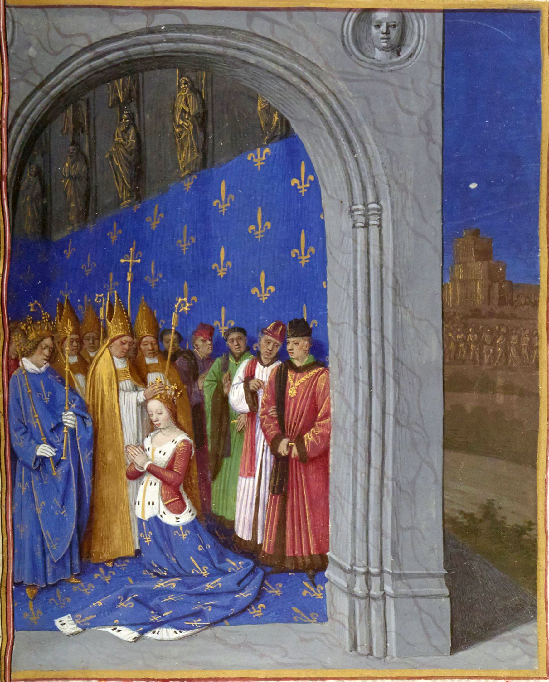 Maria of Brabant's coronation in the Sainte-Chapelle of Paris, miniature in the mansuscript Grandes Chroniques de France, Bibliothèque Nationale de France